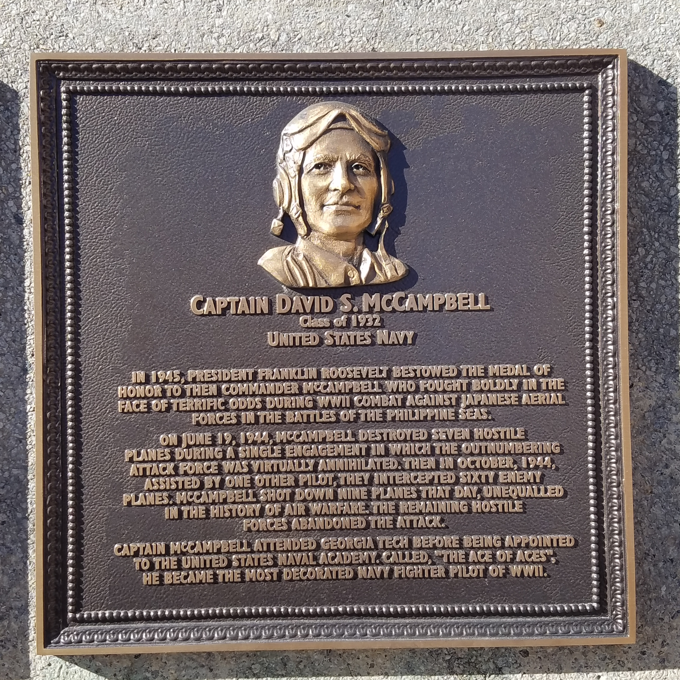 Plaque for David S. McCampbell at the Wardlaw Center at Georgia Tech.